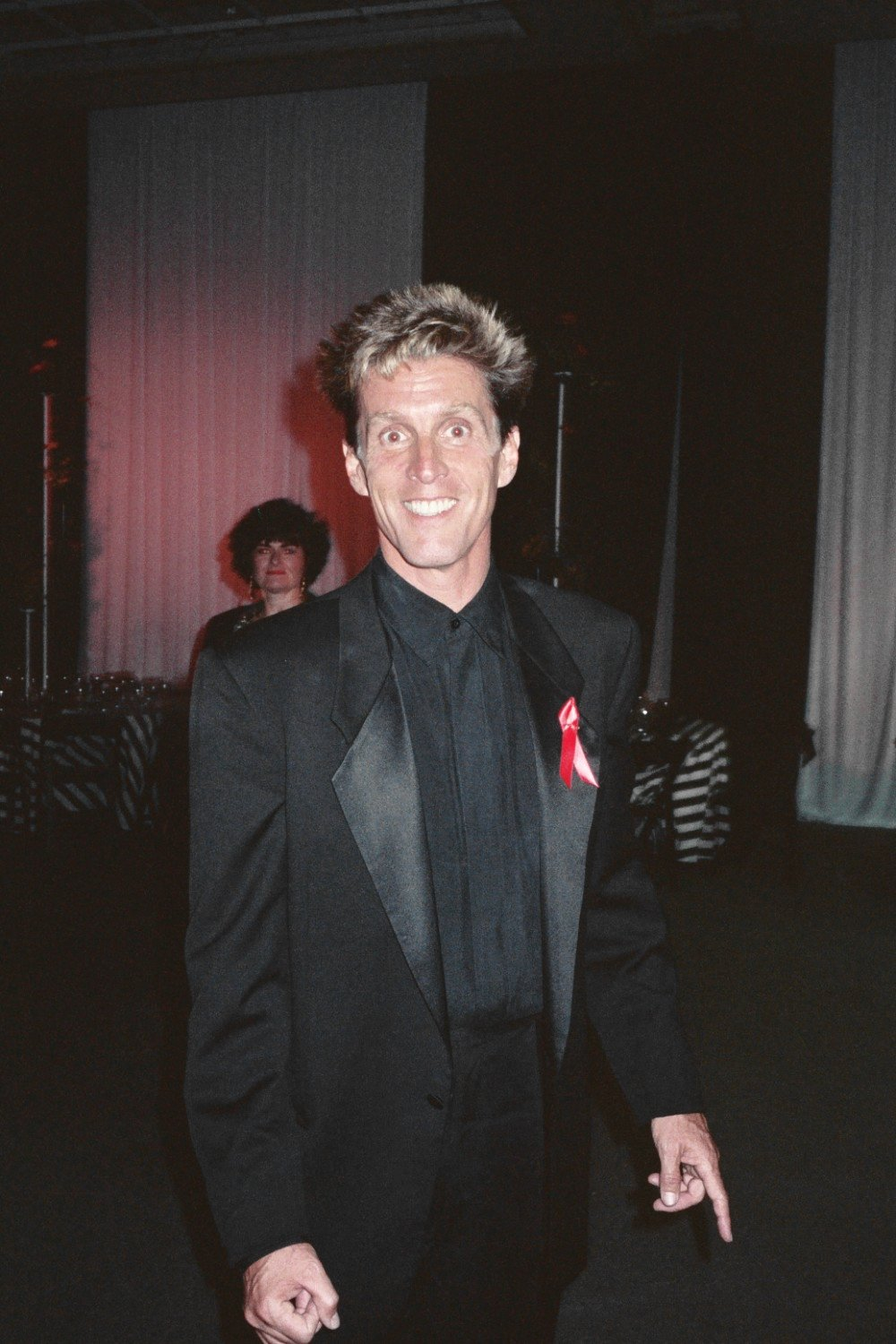 John Glover at the 1991 Emmy Award show.